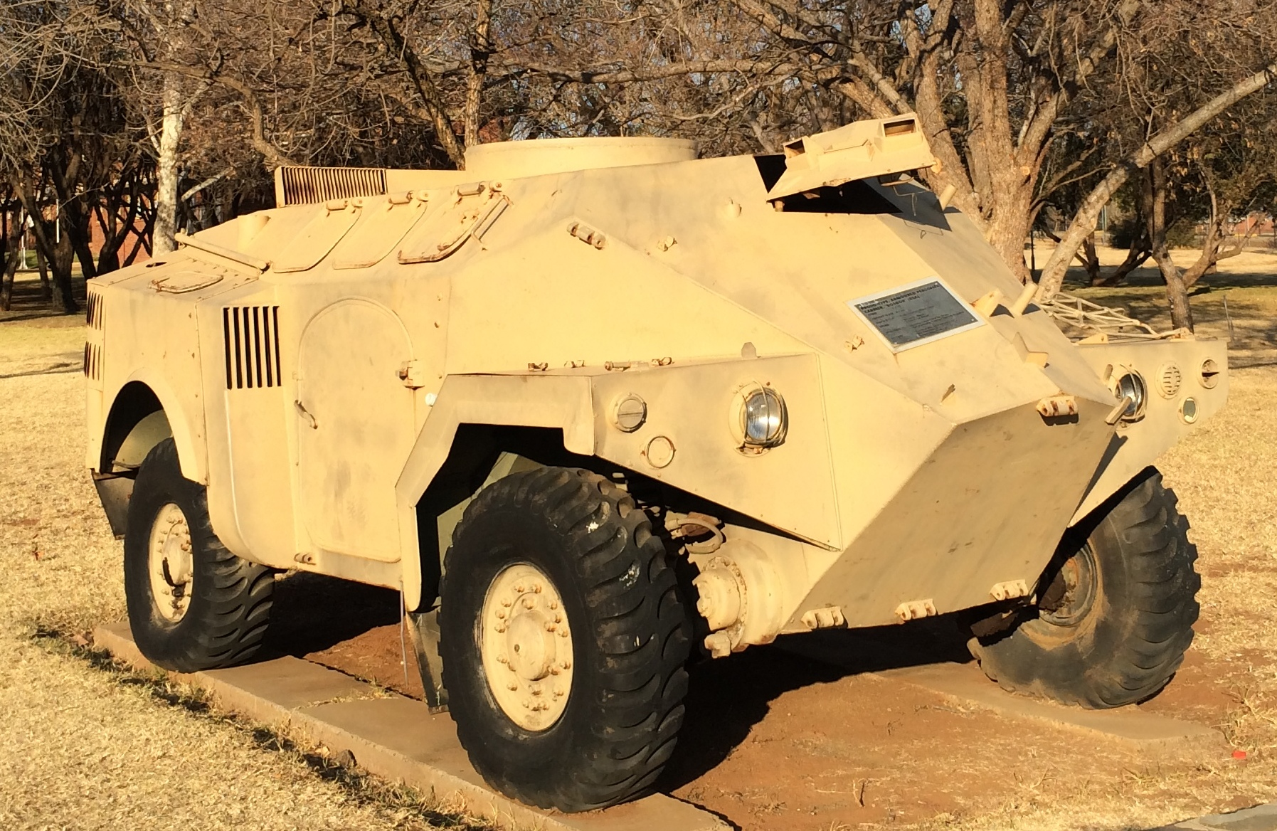 Armored personnel carrier at 1 Tank Regiment, Bloemfontein. Remark: Subject is a Panhard M3 VTT (licence built as the Bosbok Mk1), by Armscor of South Africa. The vehicle in question is no longer operational and is now being used as an on-base marker at Tempe.